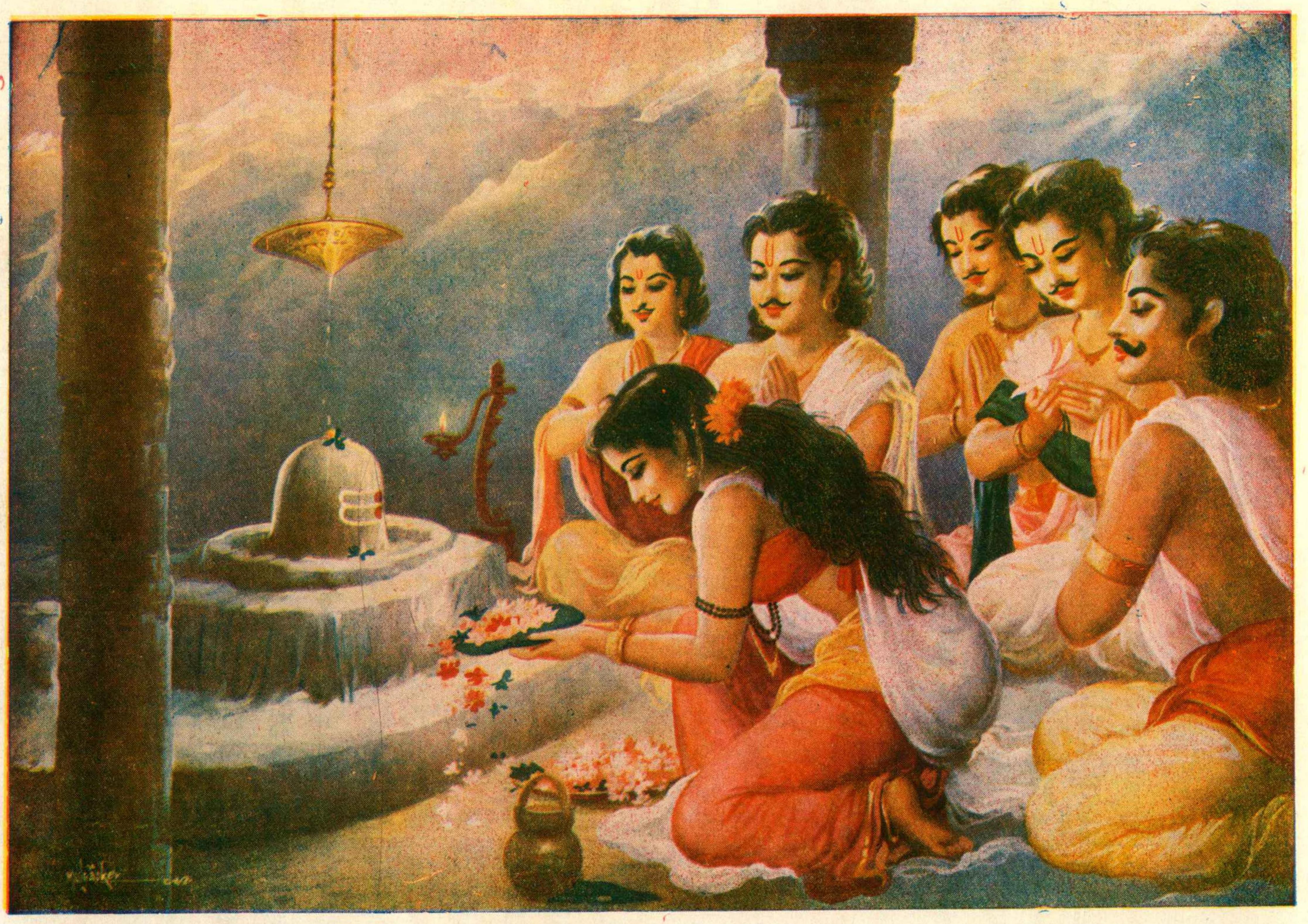 Mahabharata Tej Kumar Book Depot Mahavir Prasad Mishra by MahaMuni Usage Topics Sanskrit, "महामुनि का संग्रह", "Tej Kumar Book Depot" Collection opensource Language Sanskrit Indological Books , 'Mahabharata Tej Kumar Book Depot - Mahavir Prasad Mishra.pdf' Identifier MahabharataTejKumarBookDepotMahavirPrasadMishra Identifier-ark ark:/13960/t2994g734 Ocr language not currently OCRable Ppi 600 Scanner Internet Archive HTML5 Uploader 1.6.3